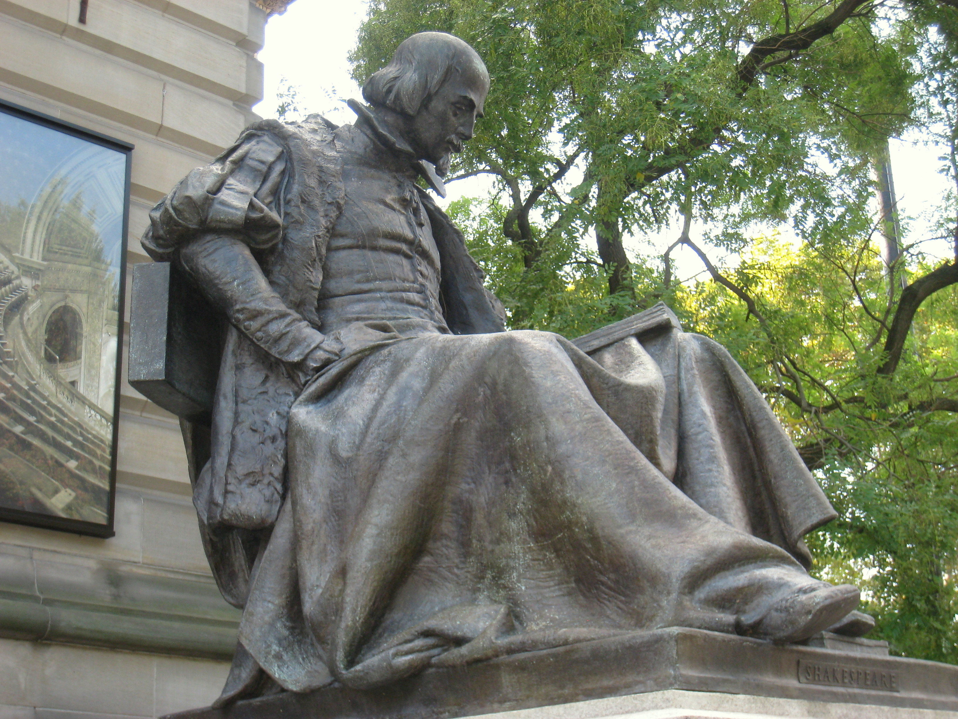 William Shakespeare sculpture, outside the Carnegie Museums of Pittsburgh, Pittsburgh, Pennsylvania, USA. Sculptor: John Massey Rhind (July 9, 1860 - 1936).